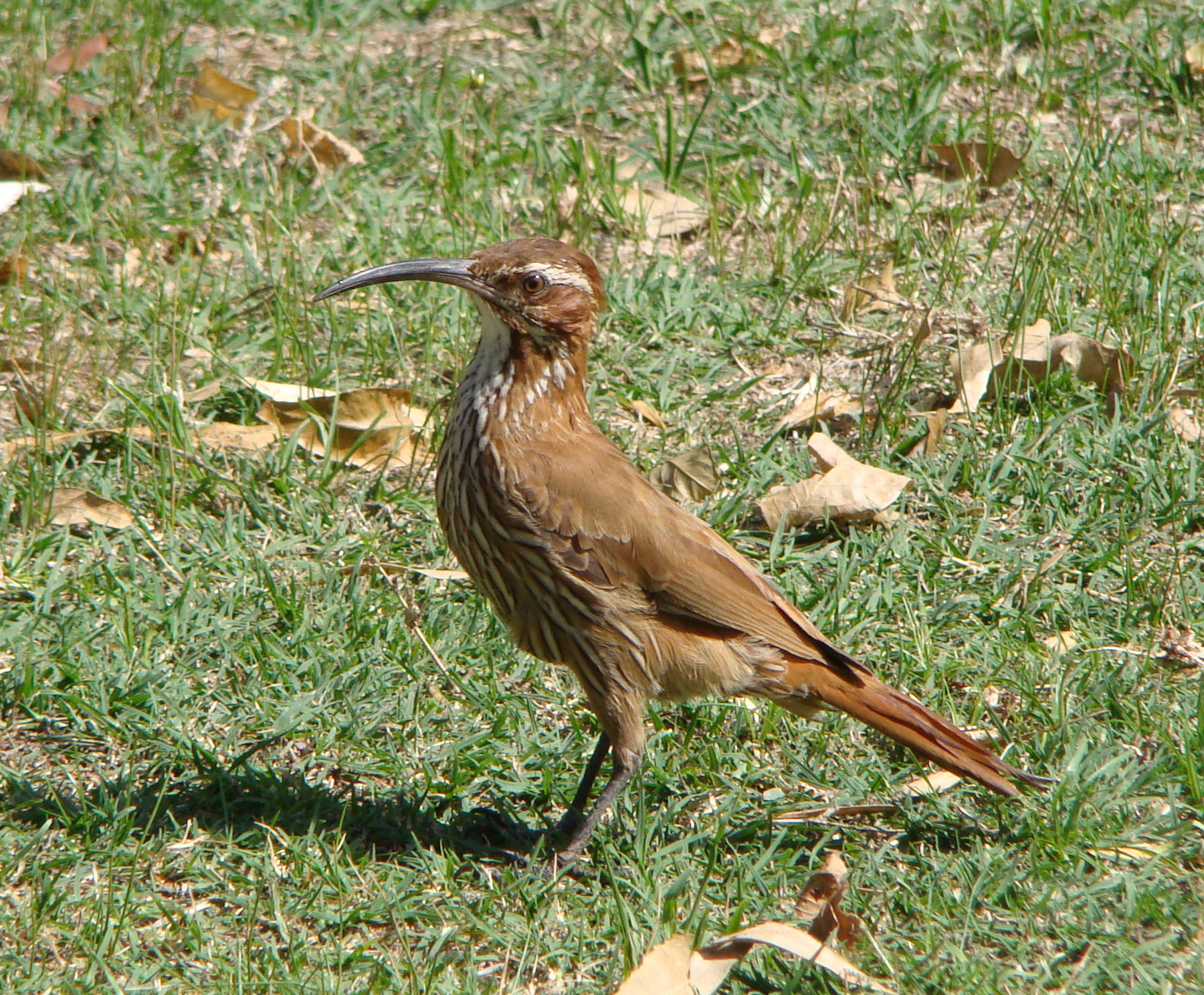 Drymornis bridges photographed in Tacuarembó, Uruguay, on February 2009.